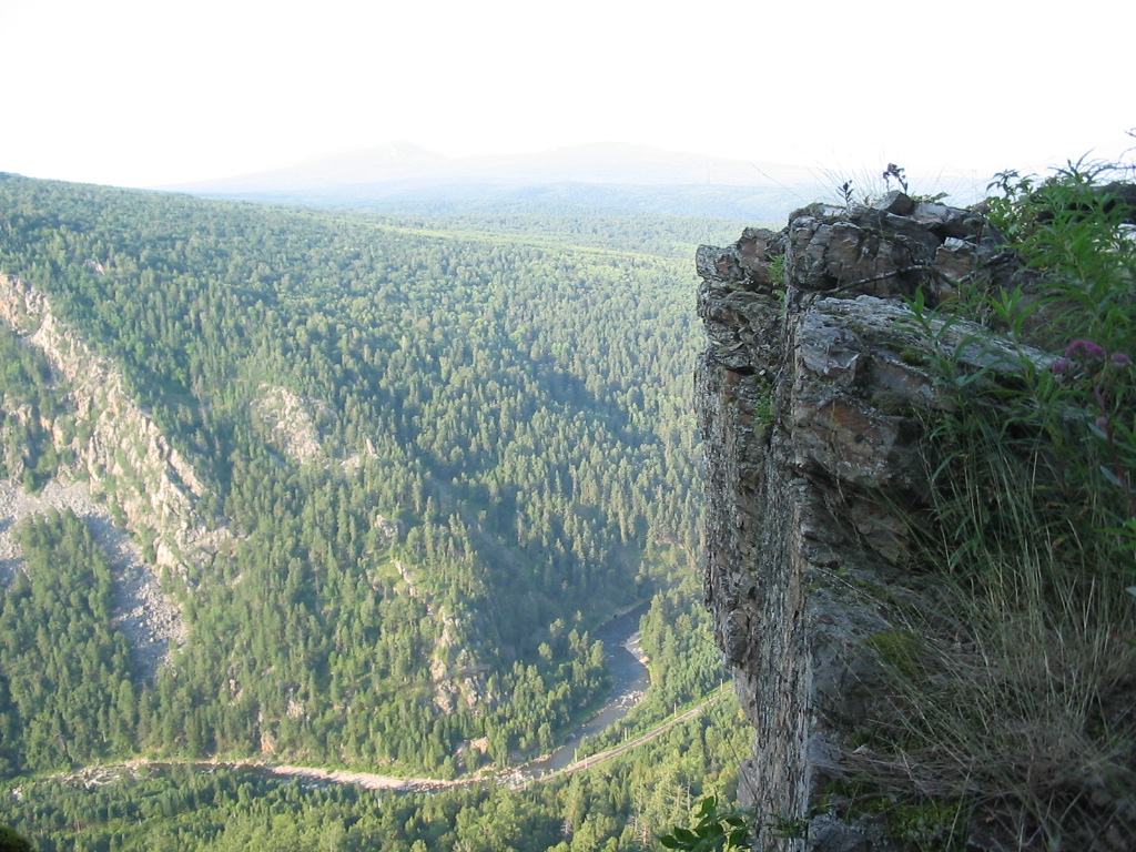 Aygir on Inzer river in Beloretsk region of Bashkortostan of Russian Federation.